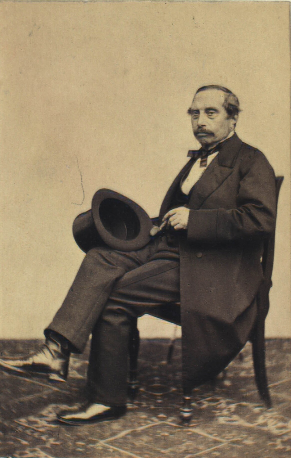 Johan (Josva) Bravo (1797-1876), Danish painter and diplomat